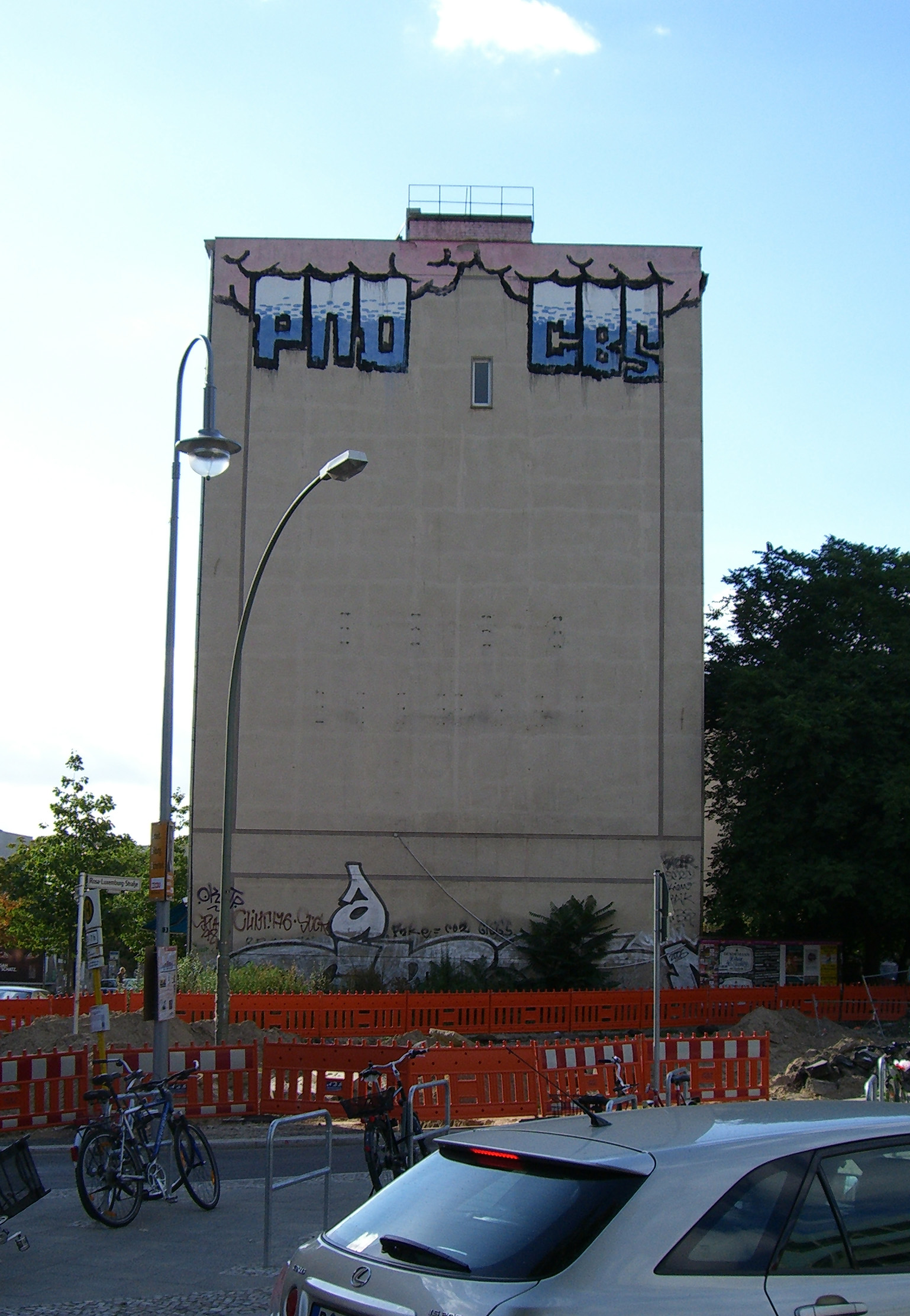 bombing with latex-paint on a rooftop in berlin